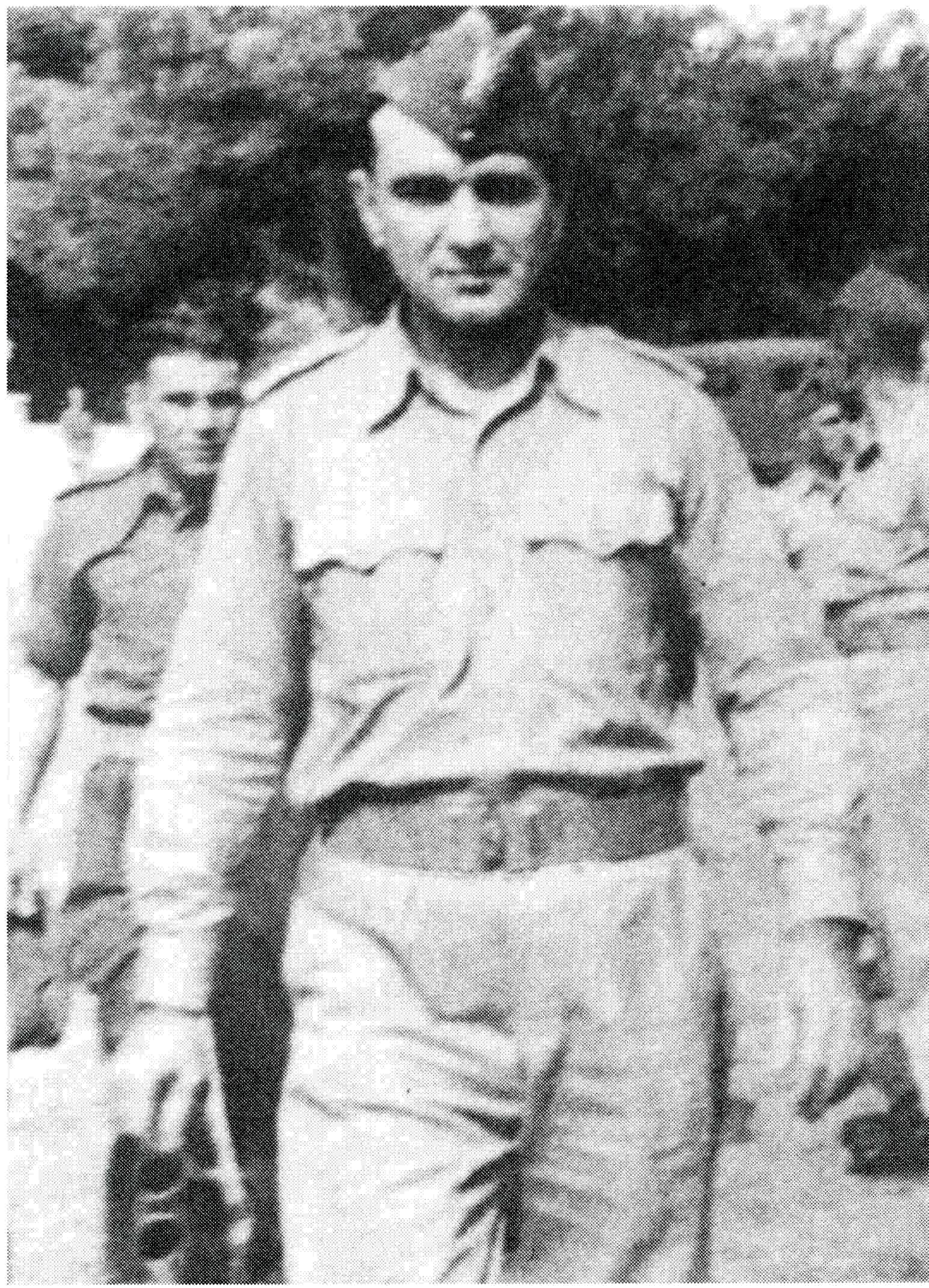 Copy of photograph: Stefan Orzechowski serving as officer in 5th Kresowa Infantry Division, Italy, 1944